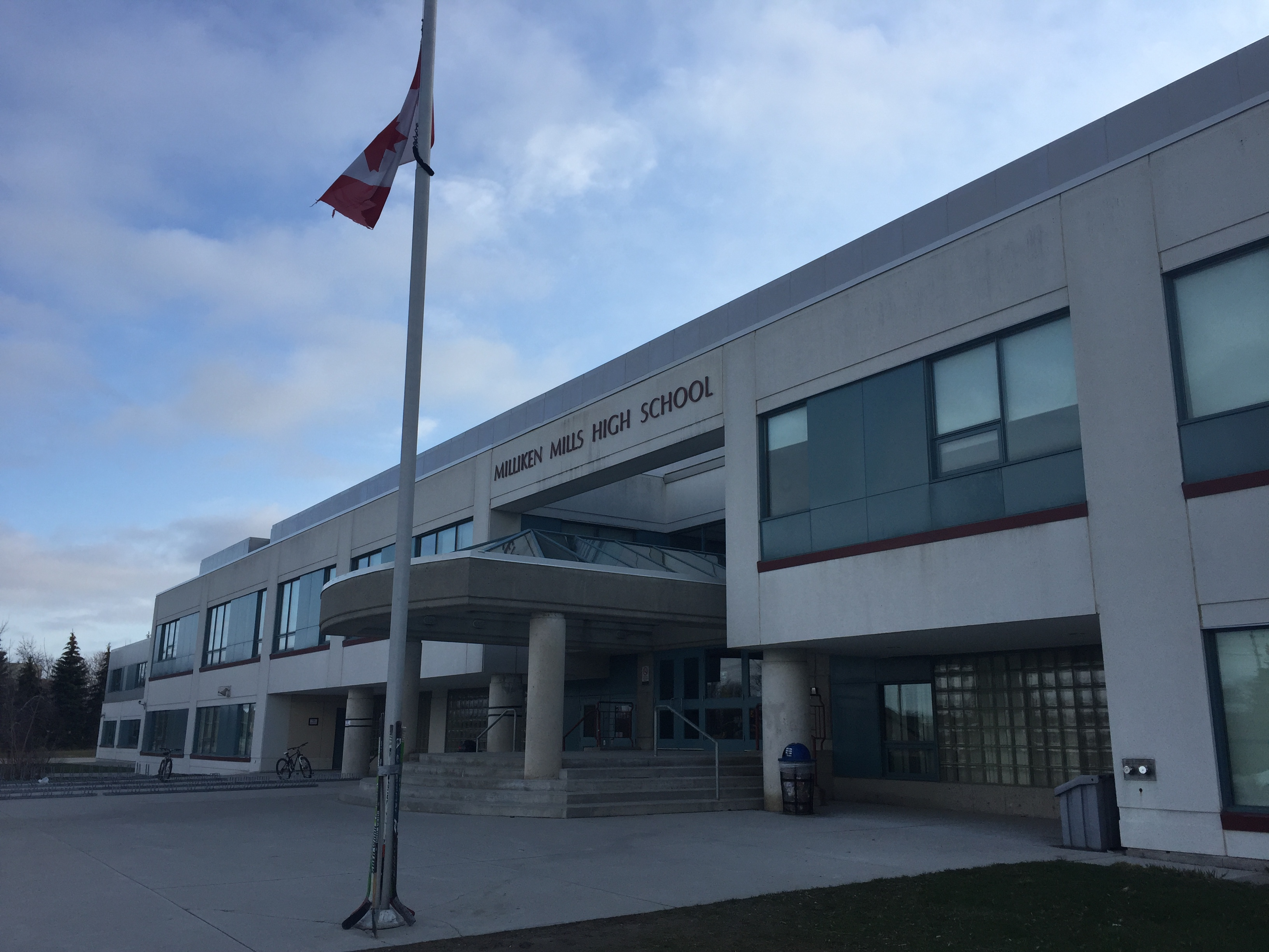 The Milliken Mills High School in Markham, Ontario.